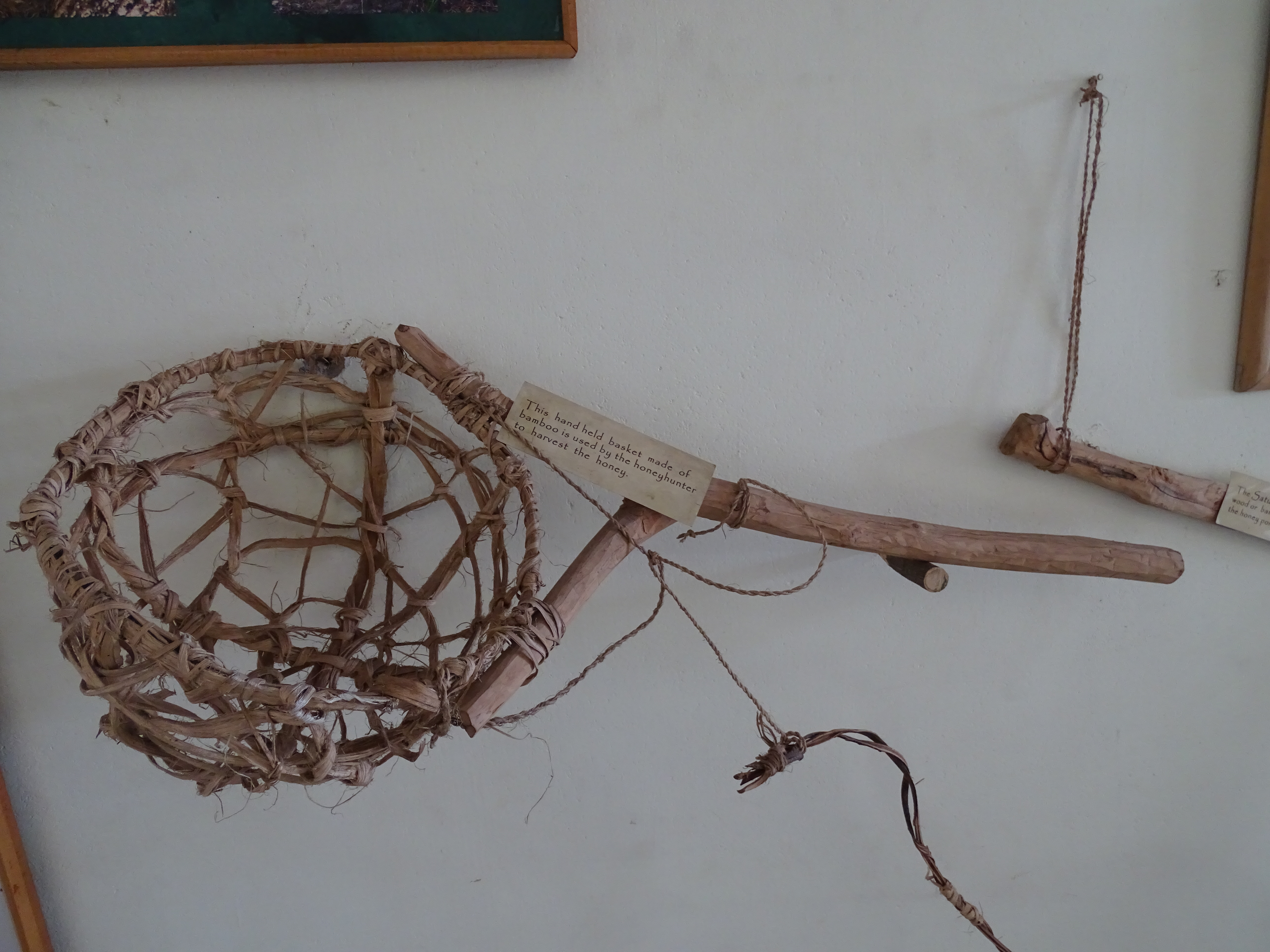 This hand held Basket made of bamboo is used by the honeyhunter to harvest honey. Picture from The Honey & Bee Museum. it is a novel project at Ooty (District of The Nilgiris District, Tamilnadu, India) by the NGO, Keystone Foundation.